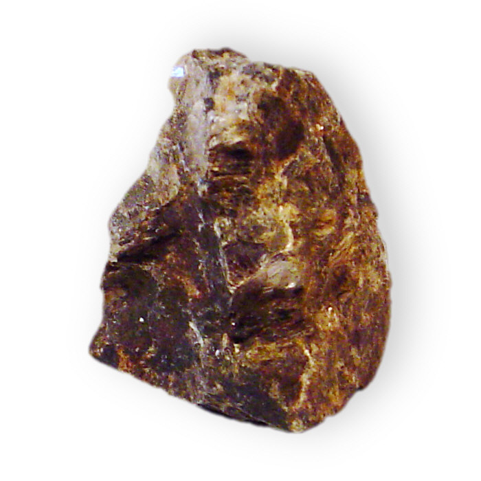 Mineral of Custer County, South Dakota. These mineral images are free to use how you wish.